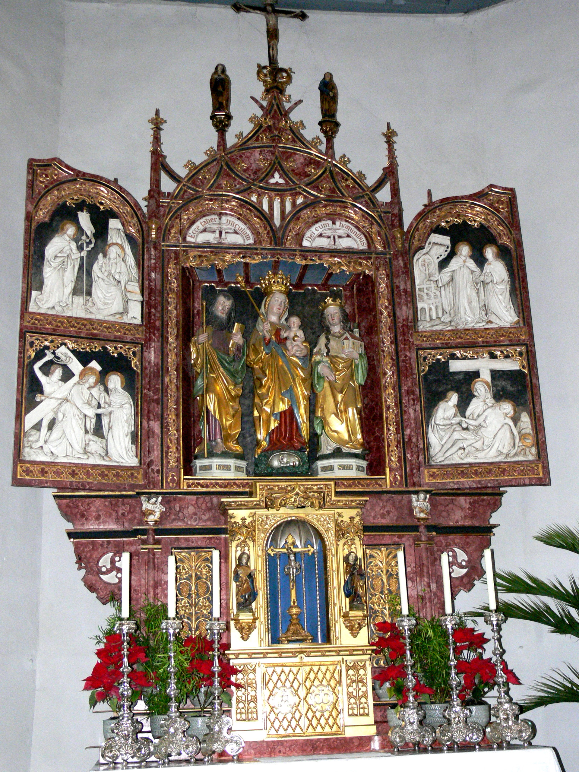 Saint James parish church in Abenberg: High altar with Madonna and Child ( 1470 )